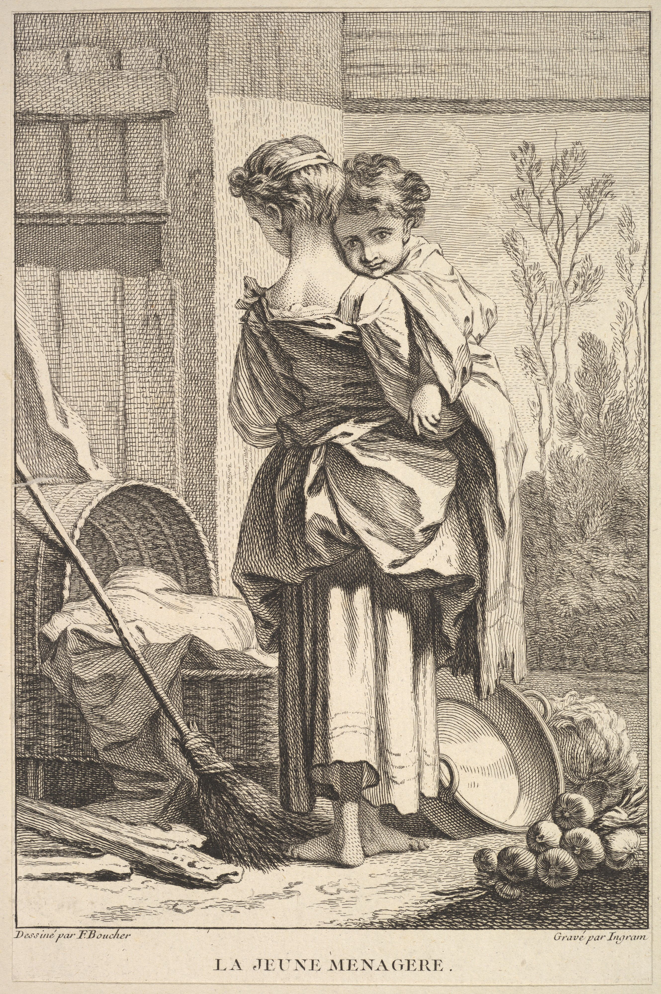 Print; Prints